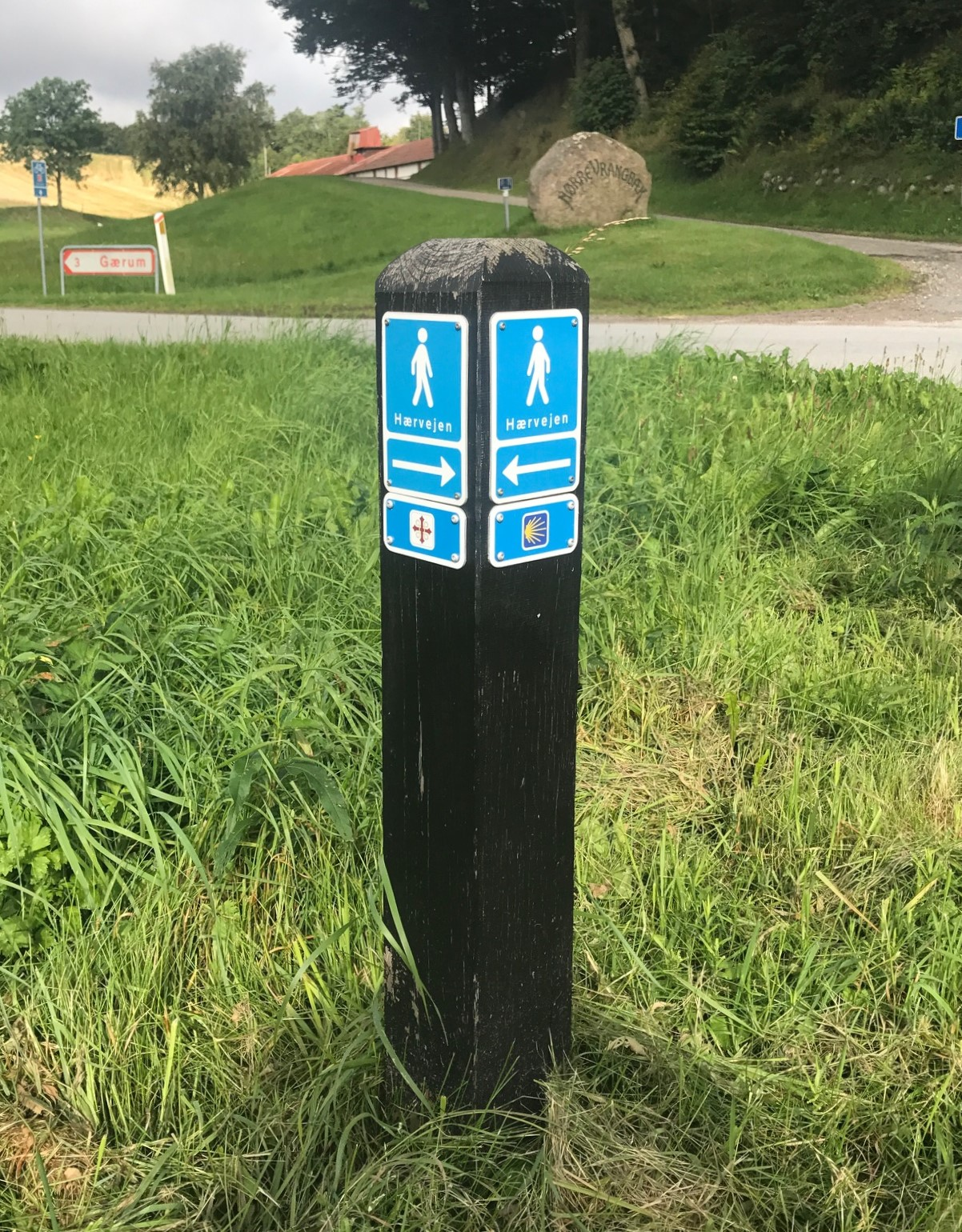 Signal post of Haervejen. It shows the logos of "Camino de Santiago" and "St Olav ways"